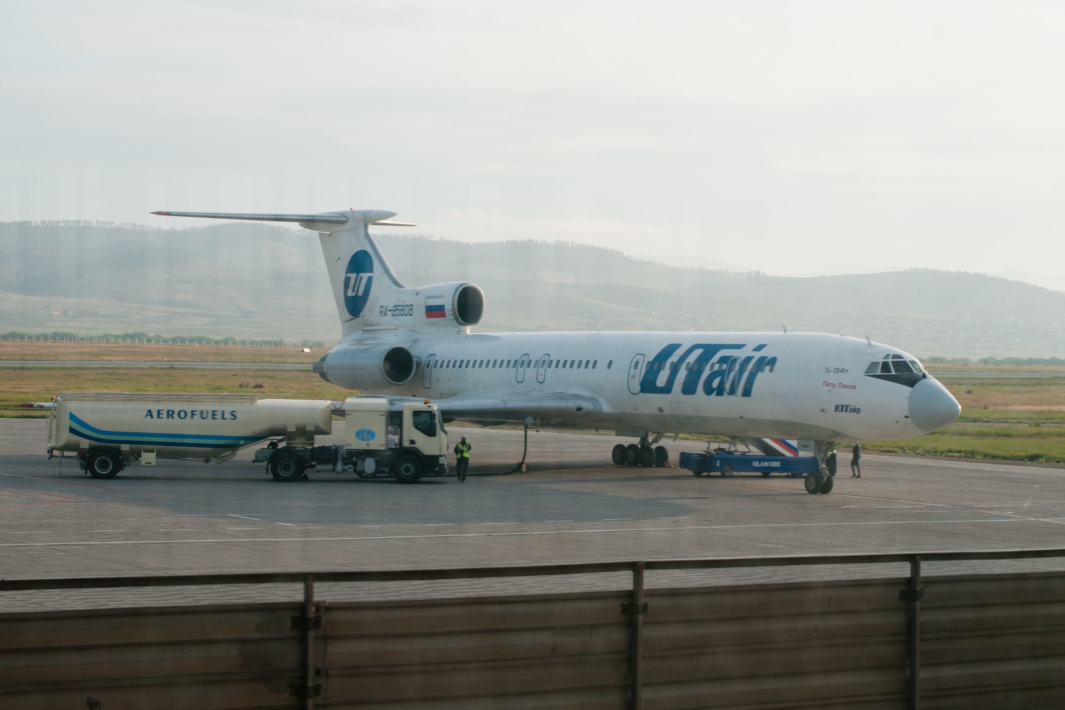 Tupolev Tu-154 at Ulan-Ude Airport.